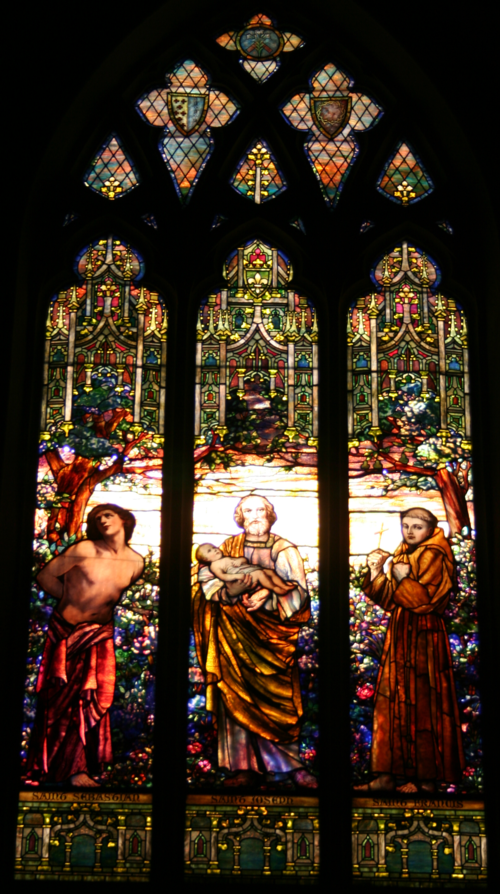 Three Saints Tiffany window, St. James (New London, CT)